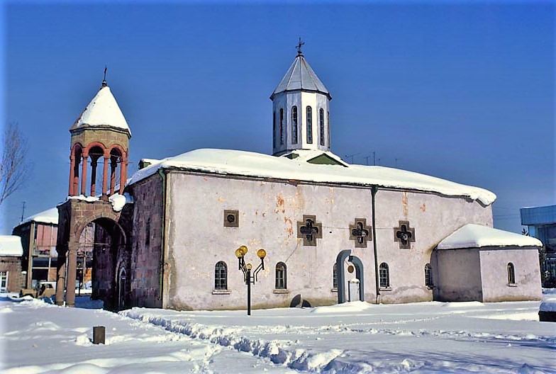 The Church ARMENIENNEHoly Cross (S Khatch) of Akhalkalak